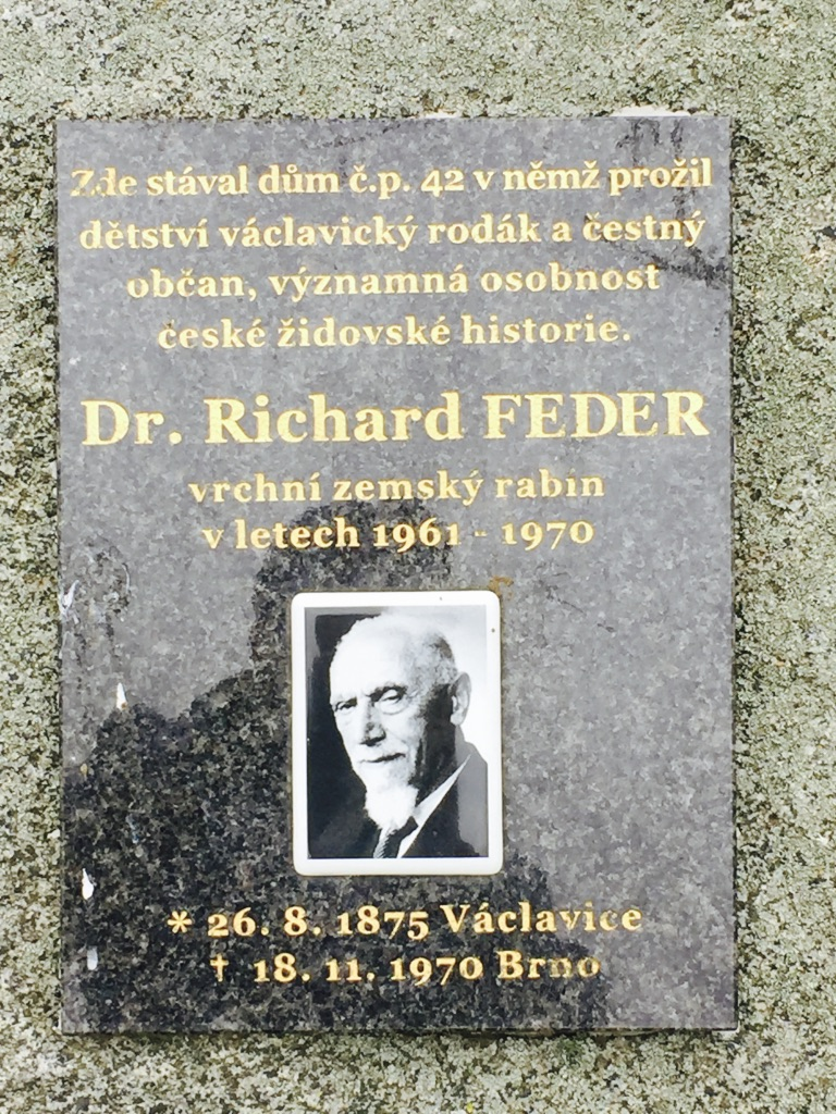 Memorial plaque at the place of Richard Feder's birthplace, taken in April 2017.